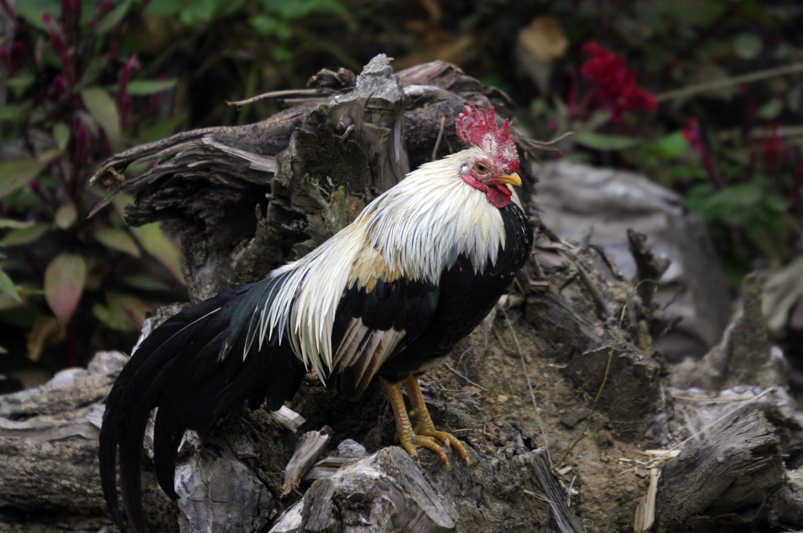 the roosters, not so much.